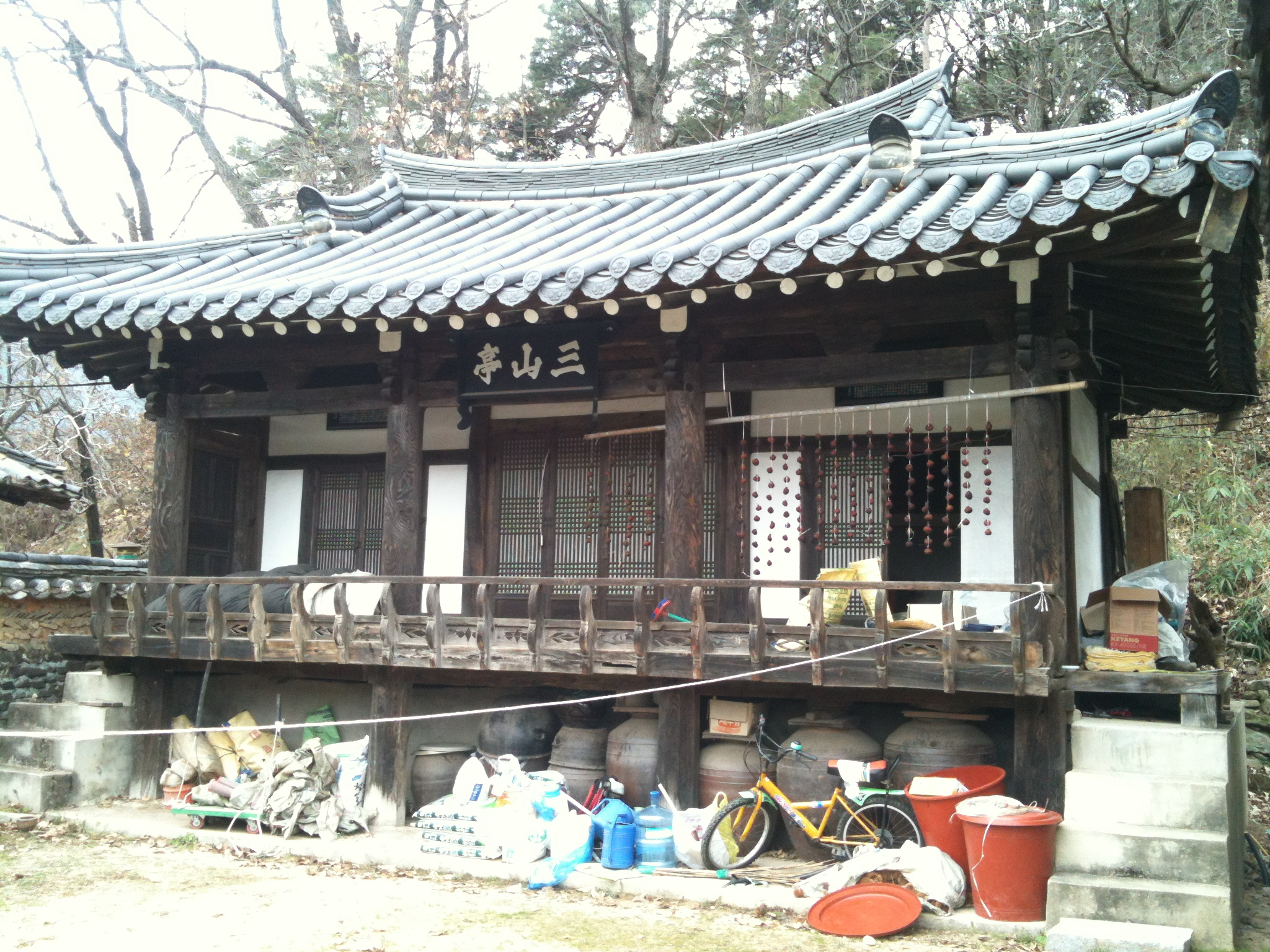 Korean traditional house